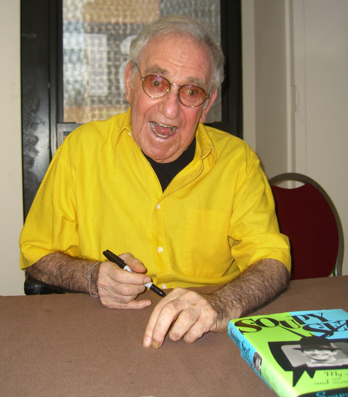 Soupy Sales at the Big Apple Convention in Manhattan, June 8, 2008.